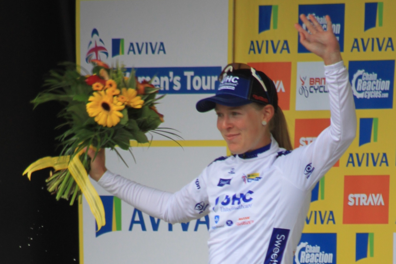 Hannah Barnes, Best British Rider in The 2015 Women's Tour.